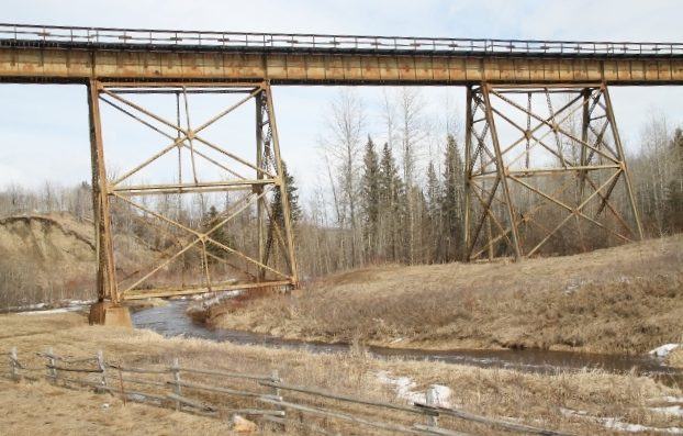 The Sturgeon River is the primary inflow to Isle Lake. It is a tributary of the North Saskatchewan River.